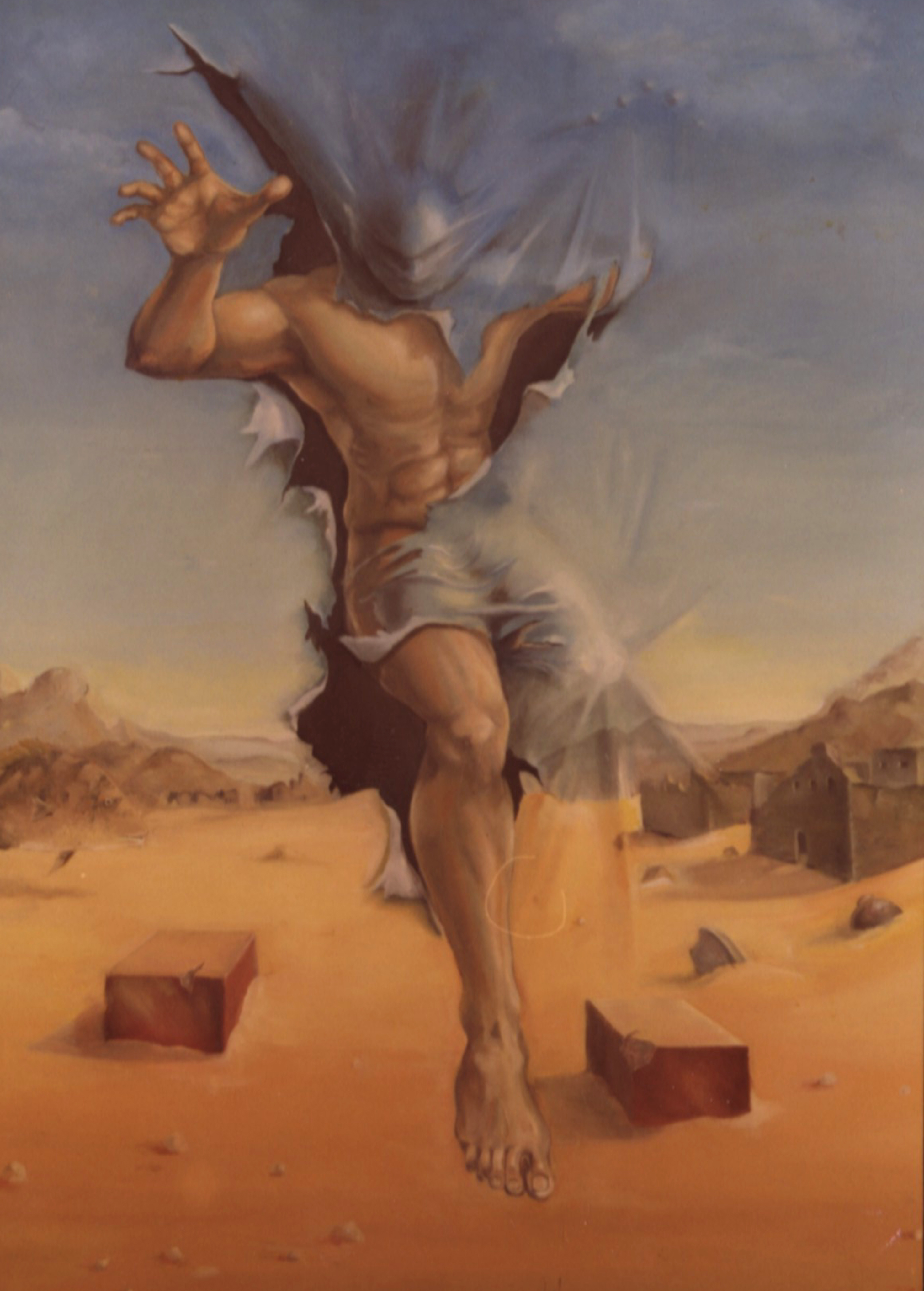 out of reality its the most famous oil painting by artist Asad Bunashi oil color on canvas 120x90